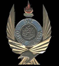 PAF College Sargodha Monogram before it was converted to PAF Public School Sargodha